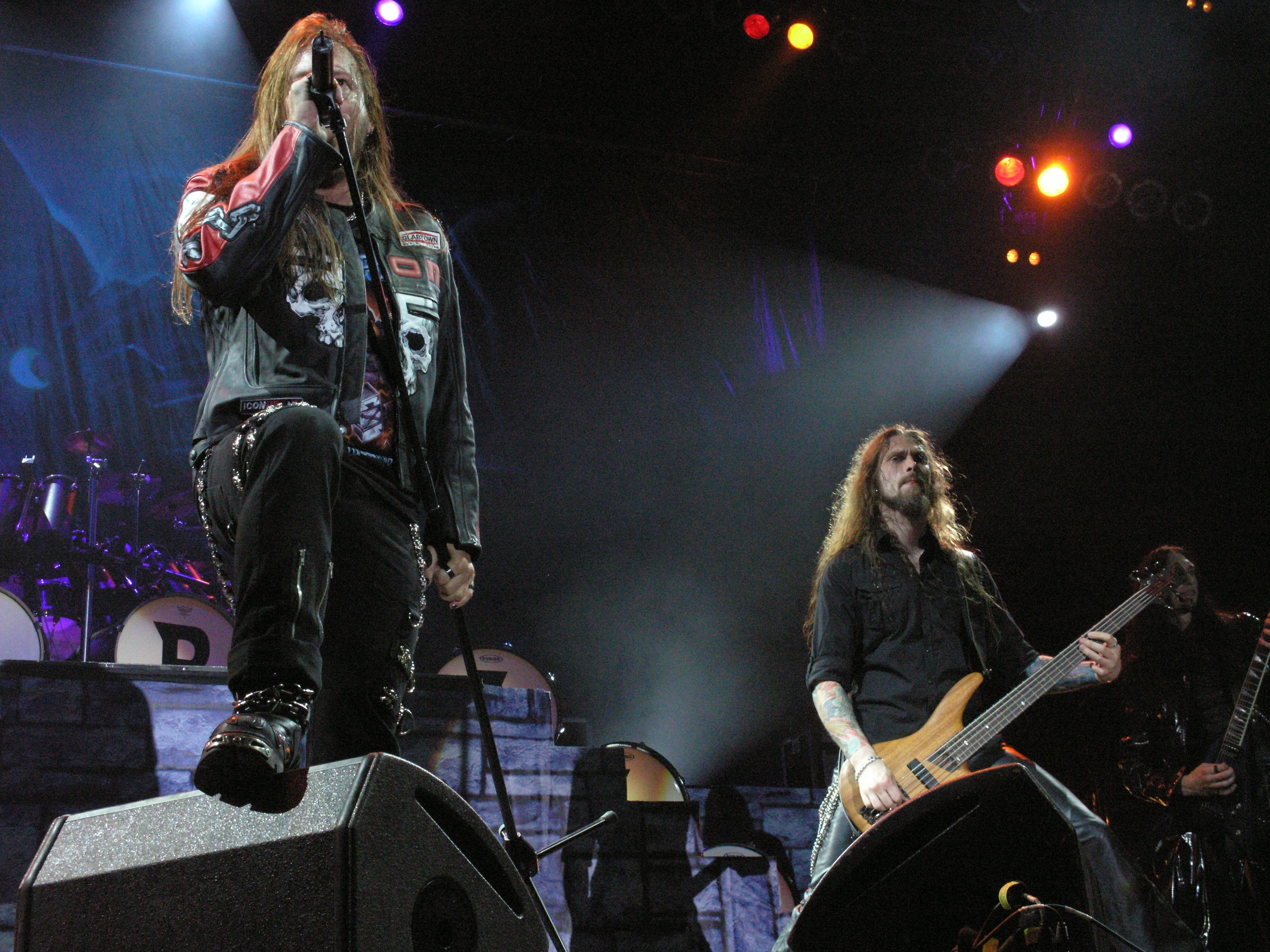 Music band Hammerfall during Masters of Rock 2007 festival